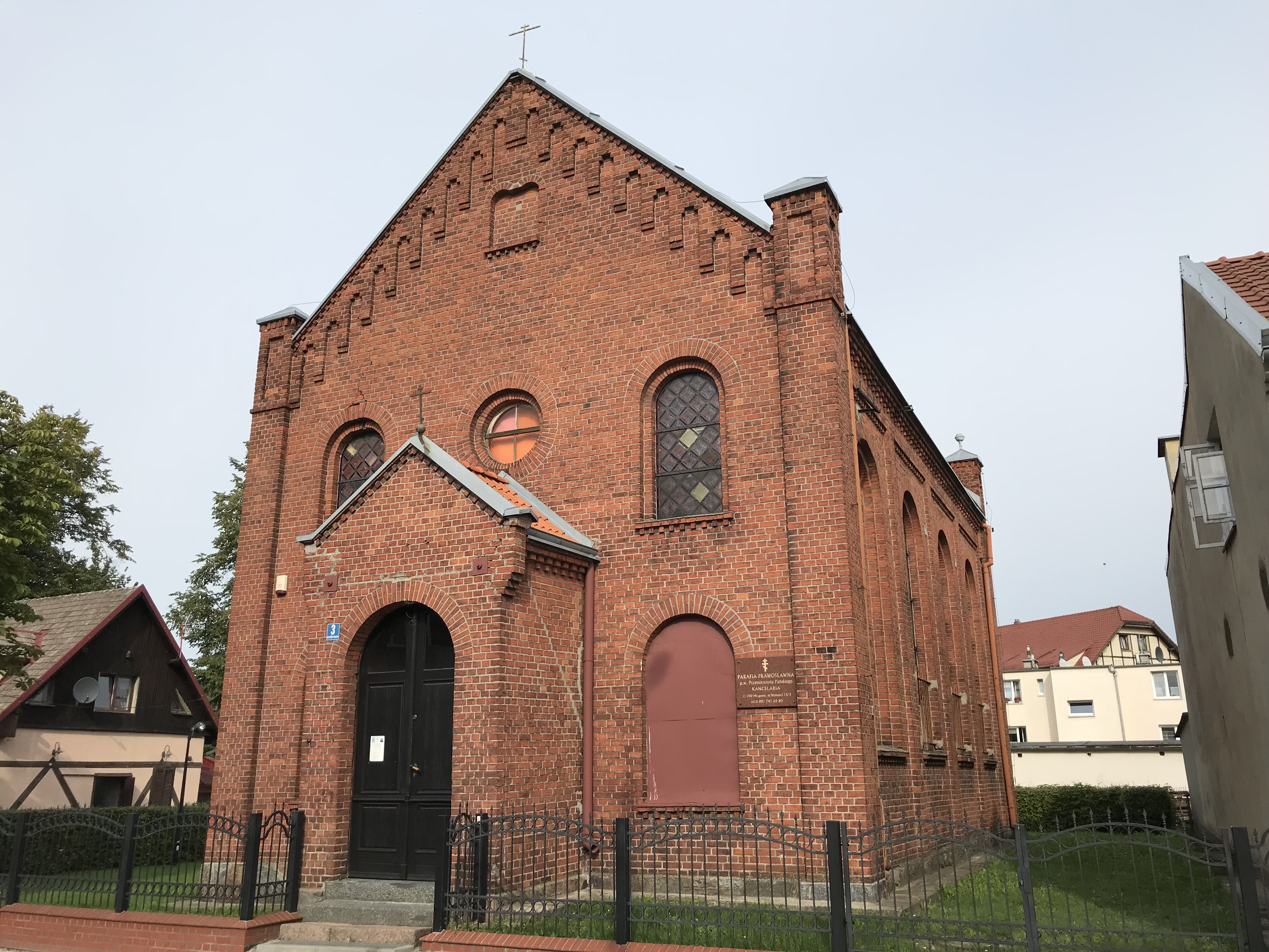 Orthodox church of the Transfiguration in Mrągowo